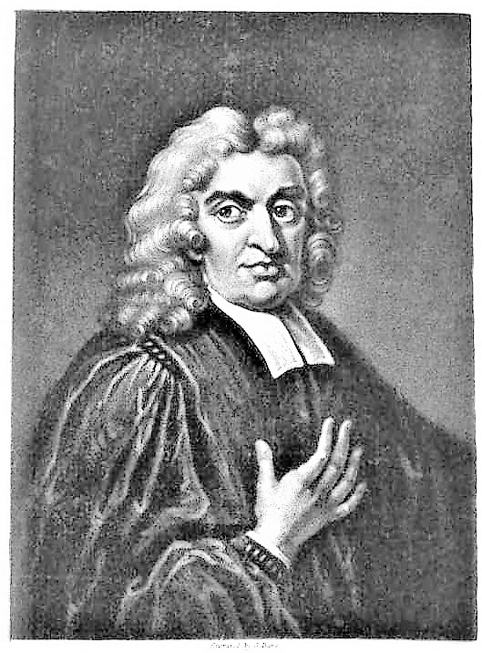 "Francis Blomefield, A. M., F.S.A., copied from an old print, Engraved as the portrait of another person, but preserved & highly valued by the late Mr. Thomas Martin as a striking likeness of the Norfolk topographer." From "An Essay Towards a Topographical History of the County of Norfolk," Vol. I, Francis Blomefield, Printed for William Miller by W. Bulmer, London, 1805.